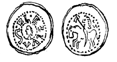 "Prince" denarius of Boleslaus II of Poland